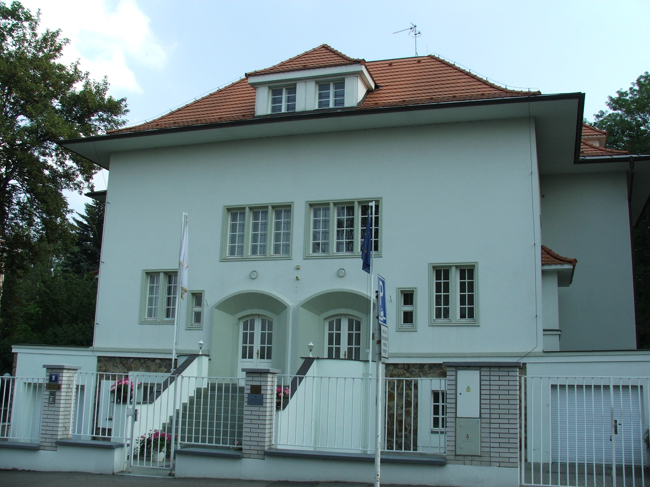 Embassy of Cyprus in Prague - Střešovice, Czechia.